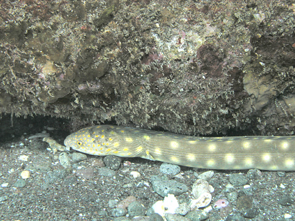 Sharptail Snake Eel (Myrichthys breviceps), Saba, Dutch Antilles. Image taken by Clark Anderson/Aquaimages.